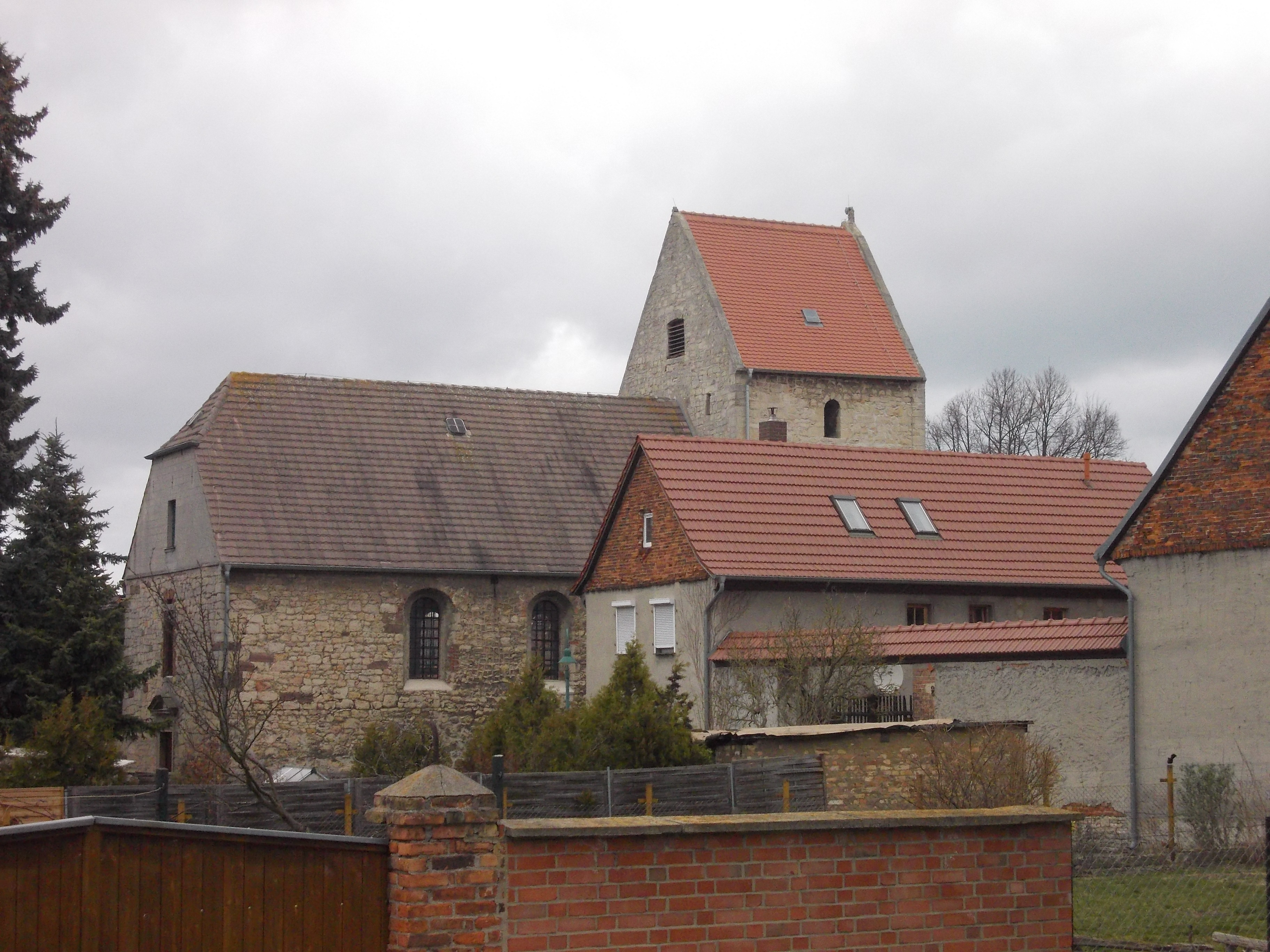 Saint Ursula's Church in Leiha (Braunsbedra, district: Saalekreis, Saxony-Anhalt)